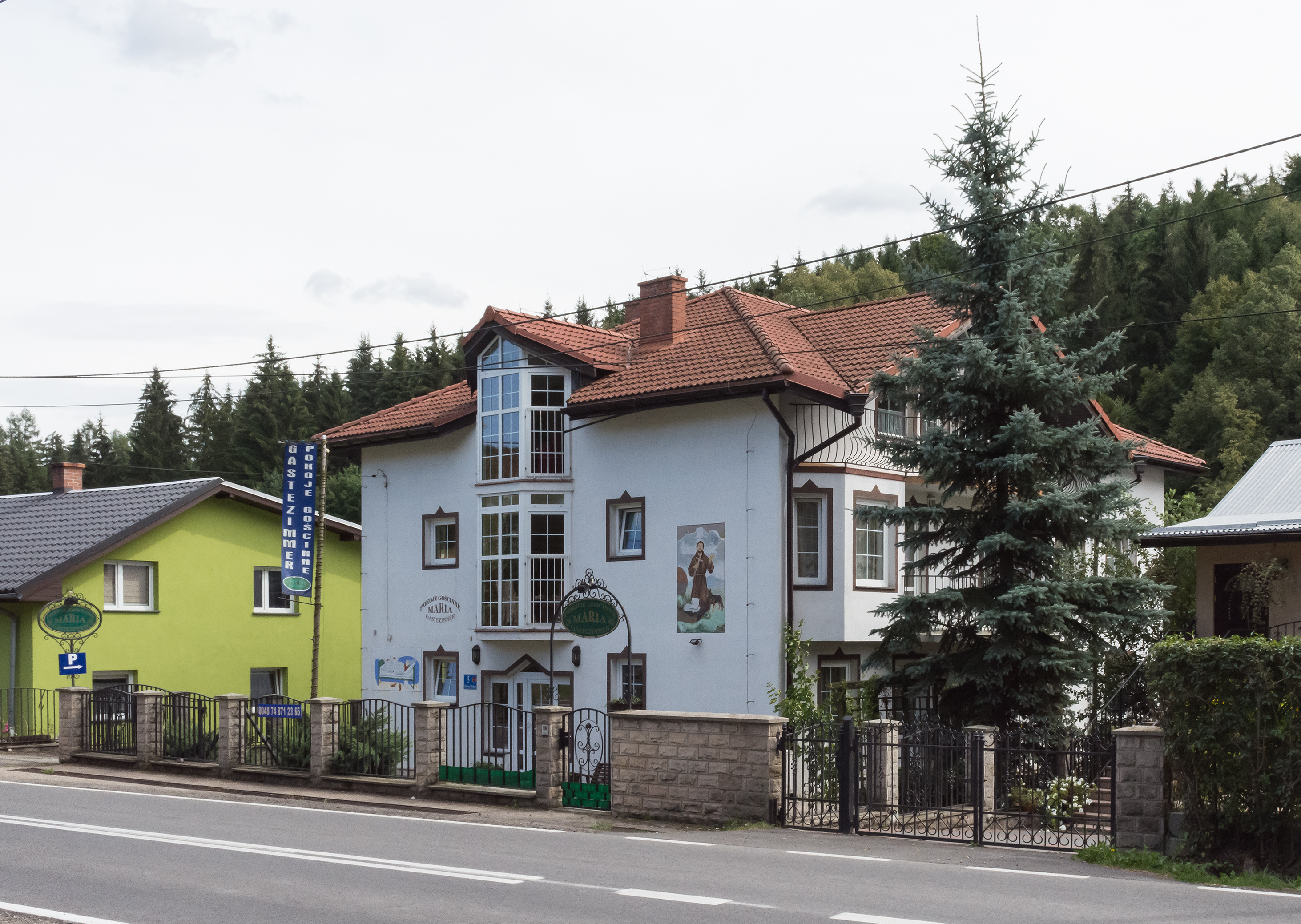 House number 5 in Ratno Dolne